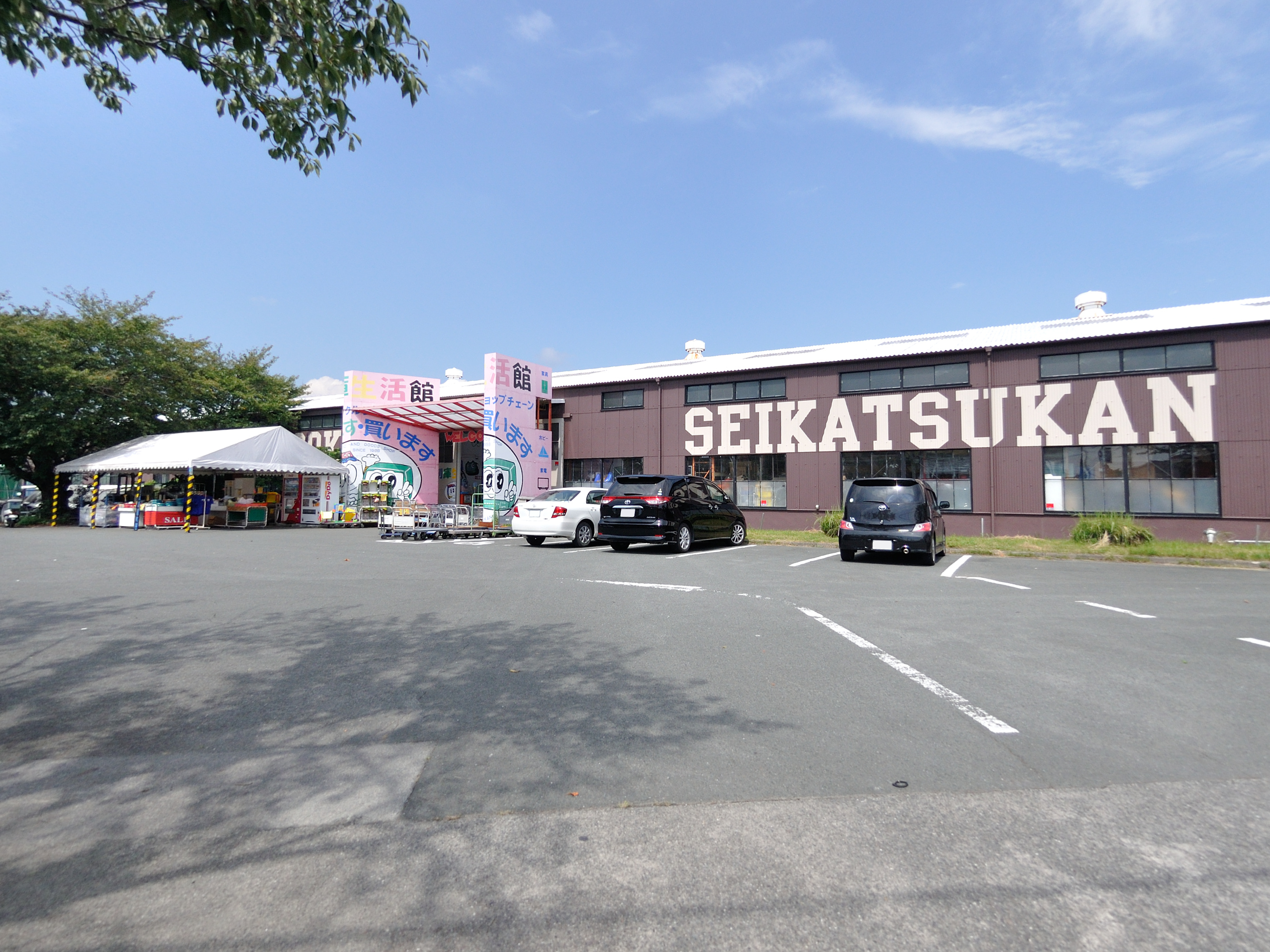 Photograph of Soko Seikatsukan Hamamatsu Aoi Honten and Rehands co.,Ltd Headquarters exterior. address 6-10-15 Aoinishi, Naka-ku, Hamamatsu City, Shizuoka Prefecture, Japan photo date and time 12:50 September 12, 2014